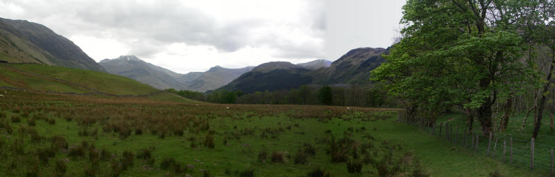 Glen Nevis, Scotland, Highland